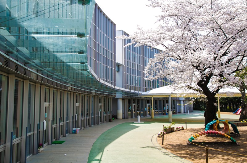 Preschool and primary building